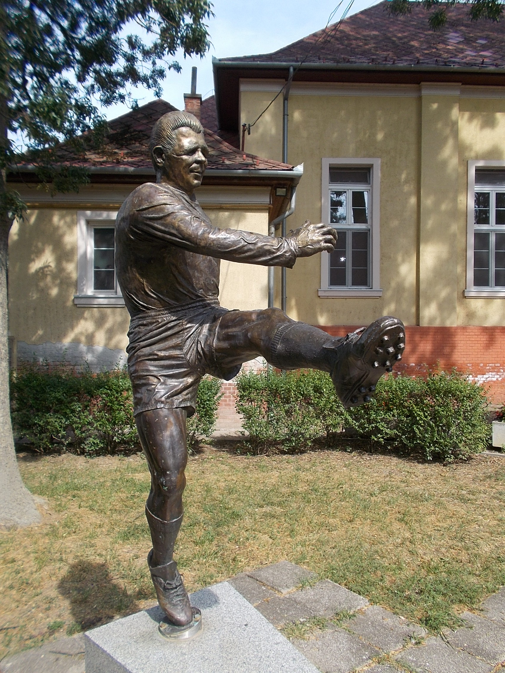 Ferenc Puskás (Puskás Öcsi) by László Csíky (2013 bronze) - Csongrádi út, Szentes, Csongrád County, Hungary.